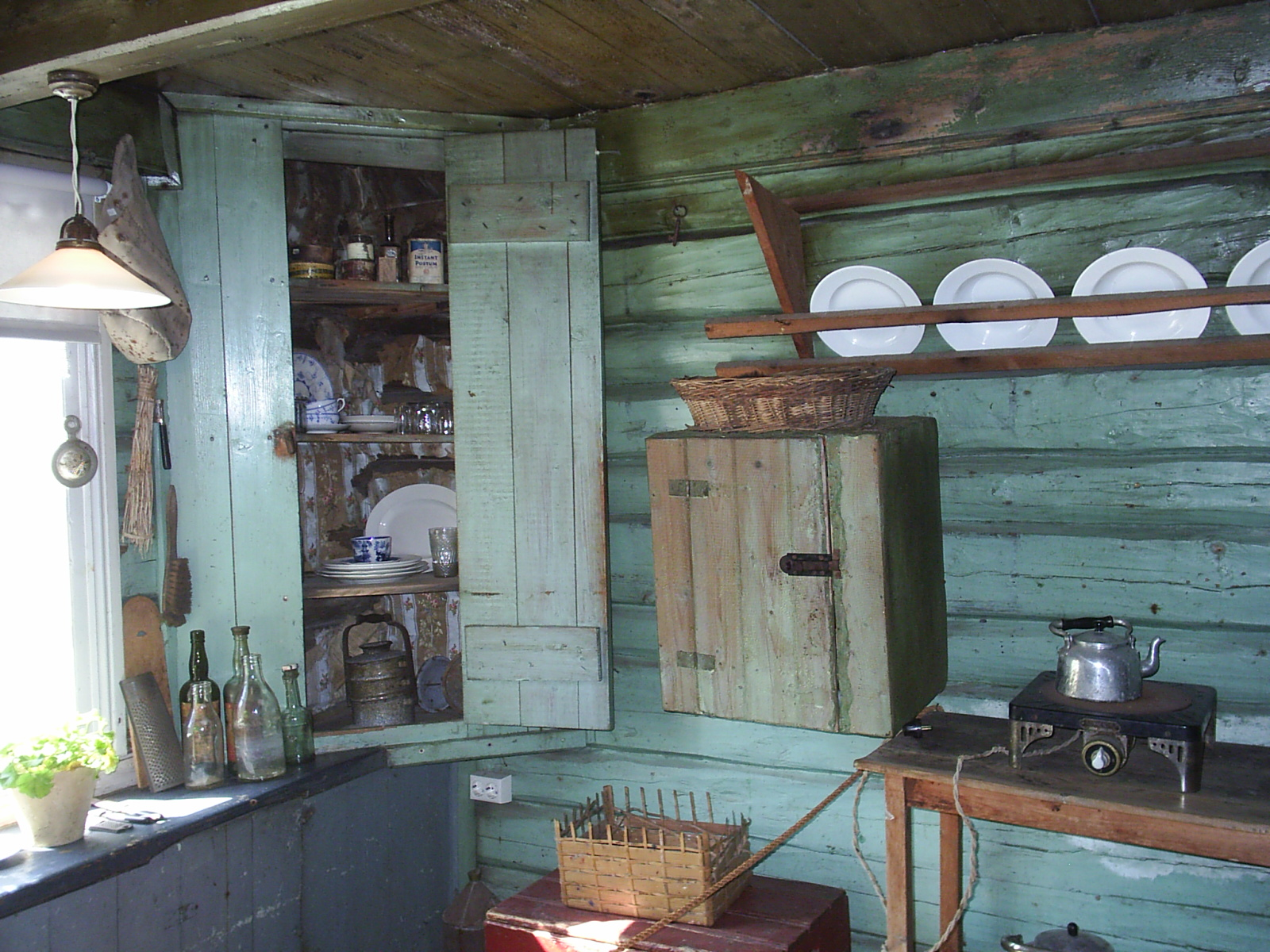 The kitchen at Edvard Munch's house in Åsgårdstrand, Norway